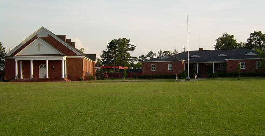 Picture from the parade ground of the chapel and admin building at Camden Military Academy.